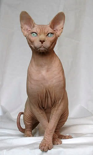 Canadian Sphynx Red